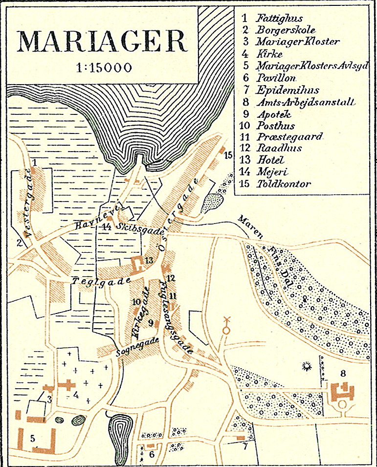 Map of Mariager in Randers County in Denmark